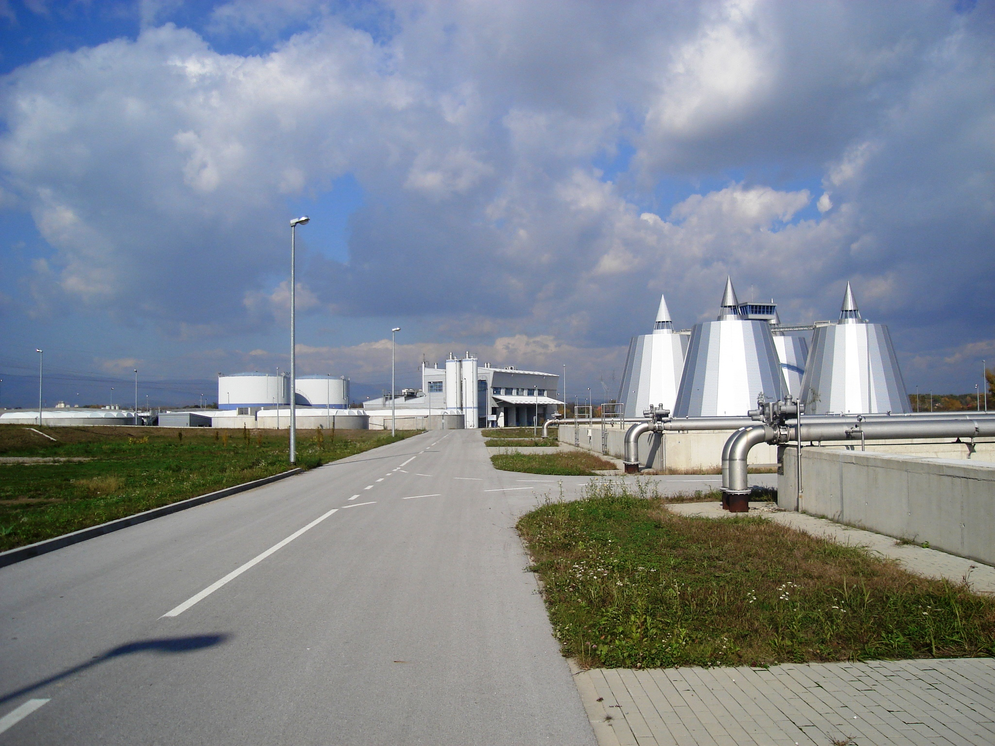 Central wastewater treatment plant in Zagreb.